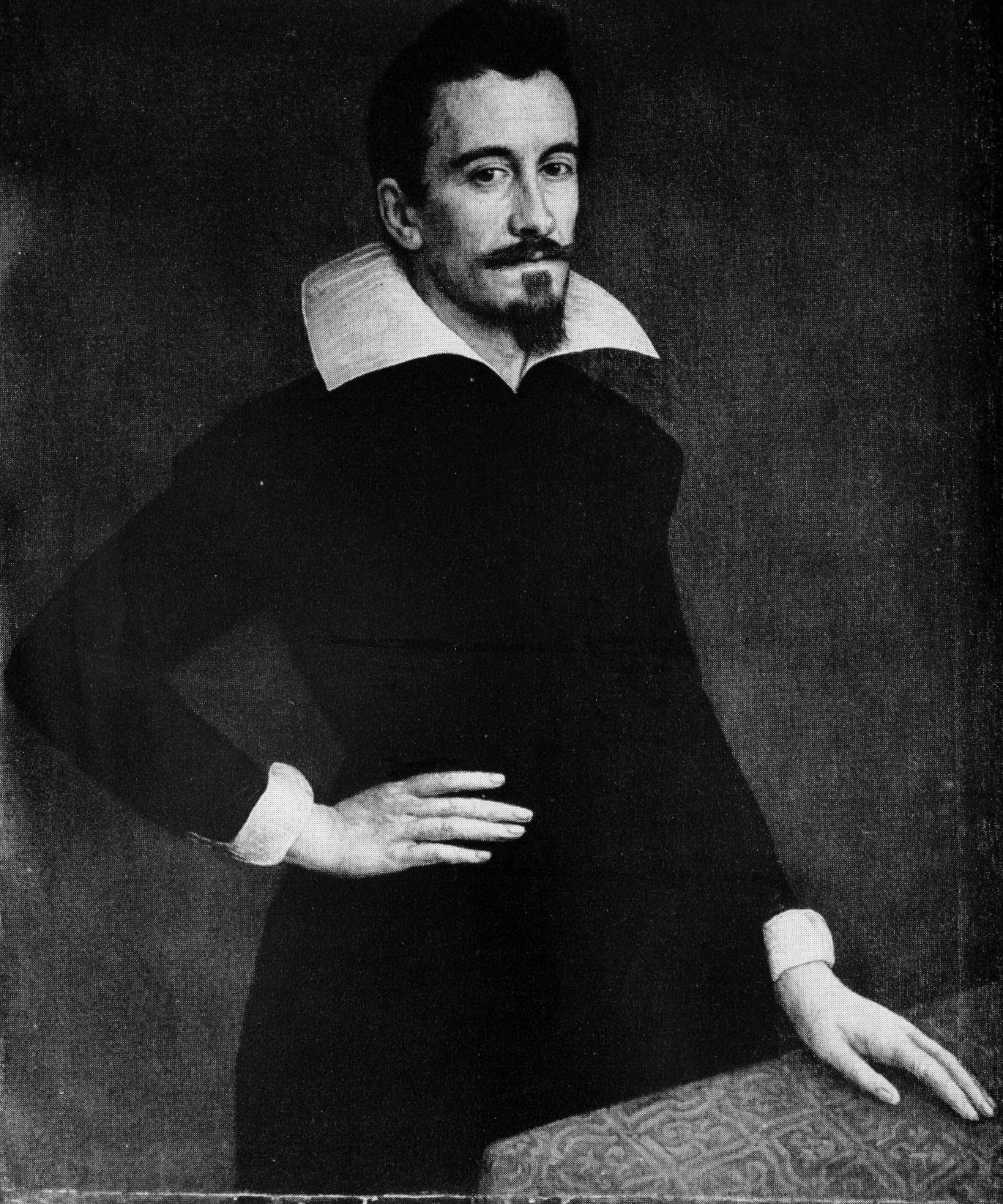 Elias Holl (1573-1646); 103:86 cm